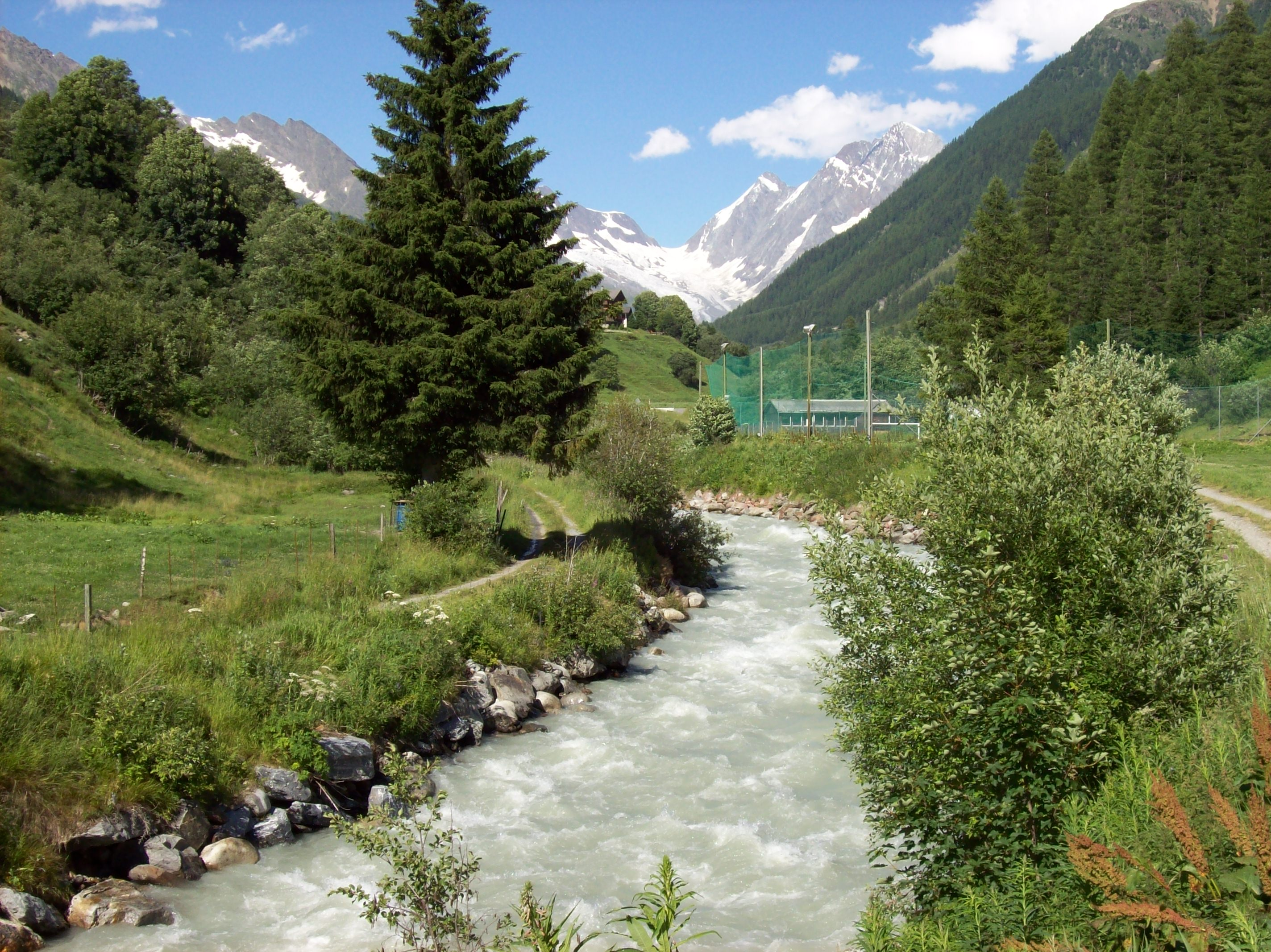 Kippel, Valais, Switzerland